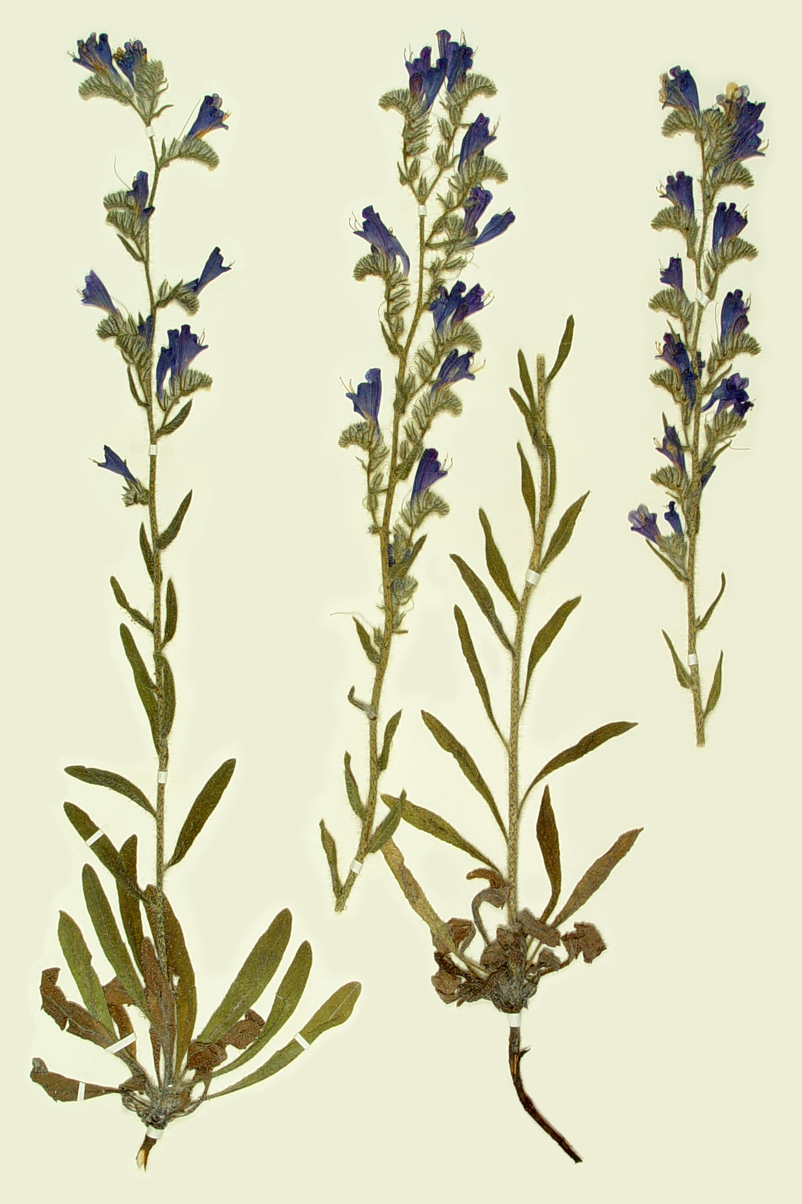 Echium pustulatum Sibth. et Sm.